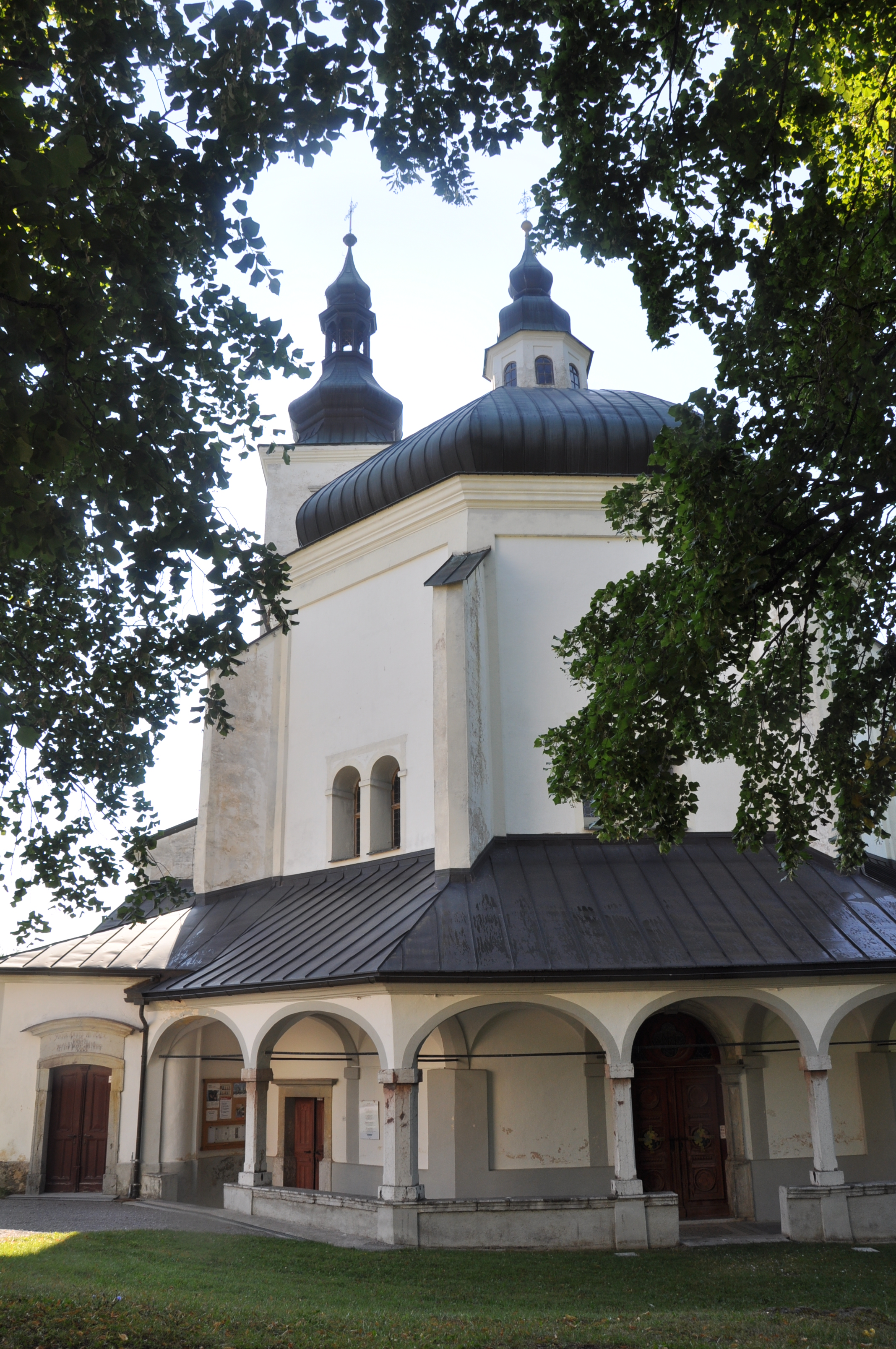 Nova Štifta, village + church, Slovenia